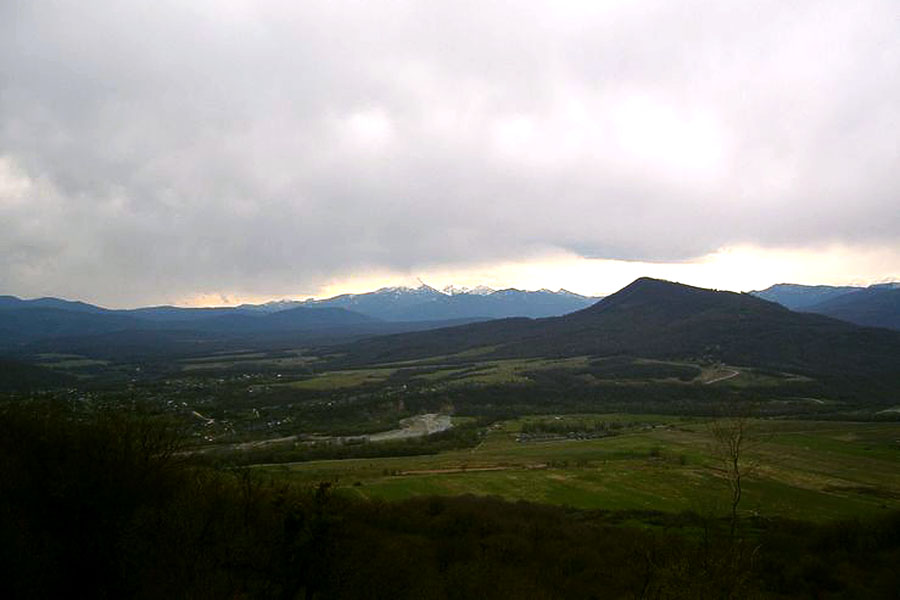 Abadzehskaya village